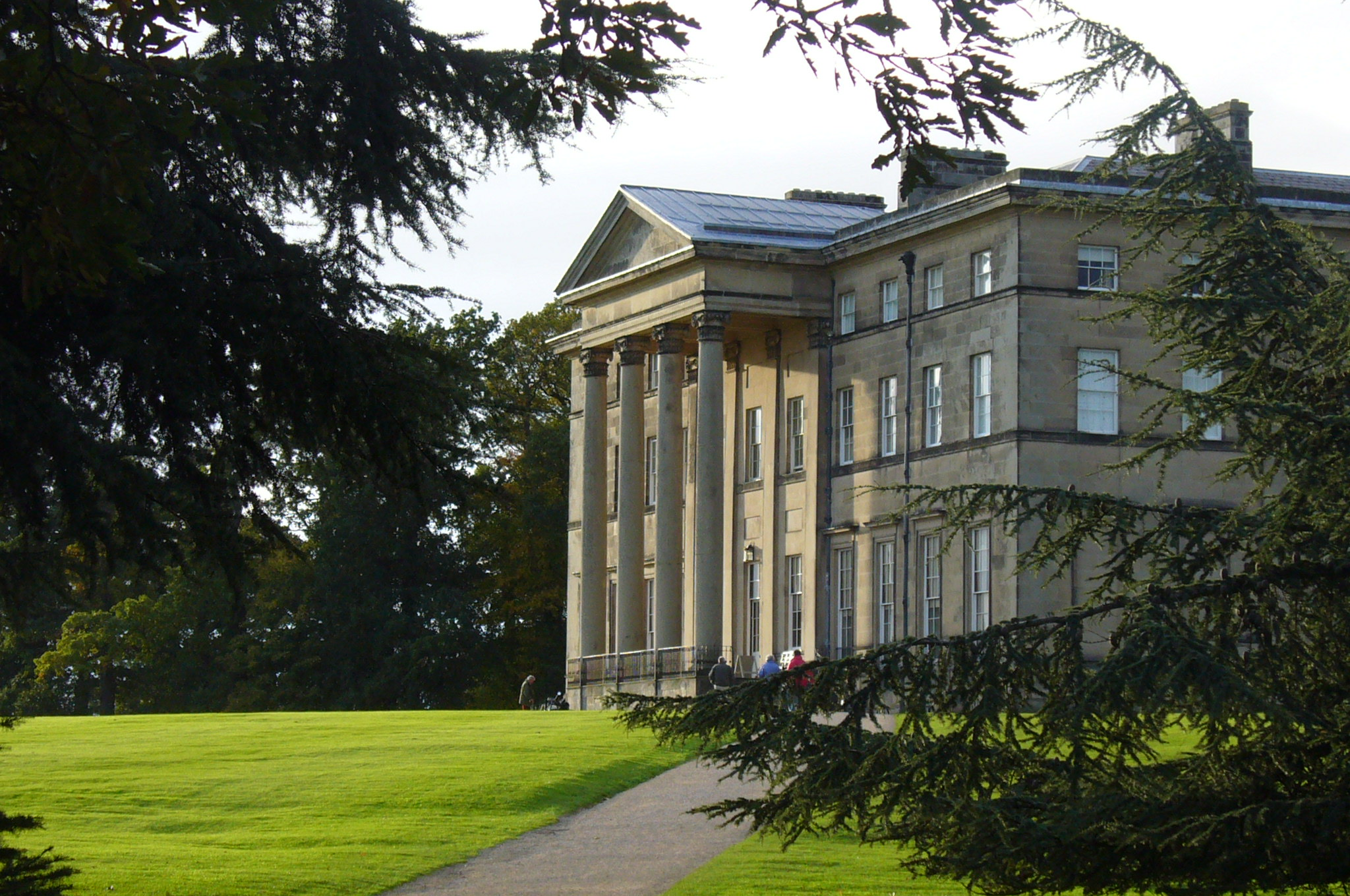 The house in Attingham Park, Atcham, Shropshire, seen from the east